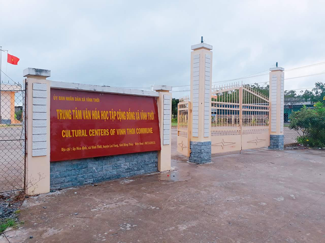 Vinh Thoi, Lai Vung